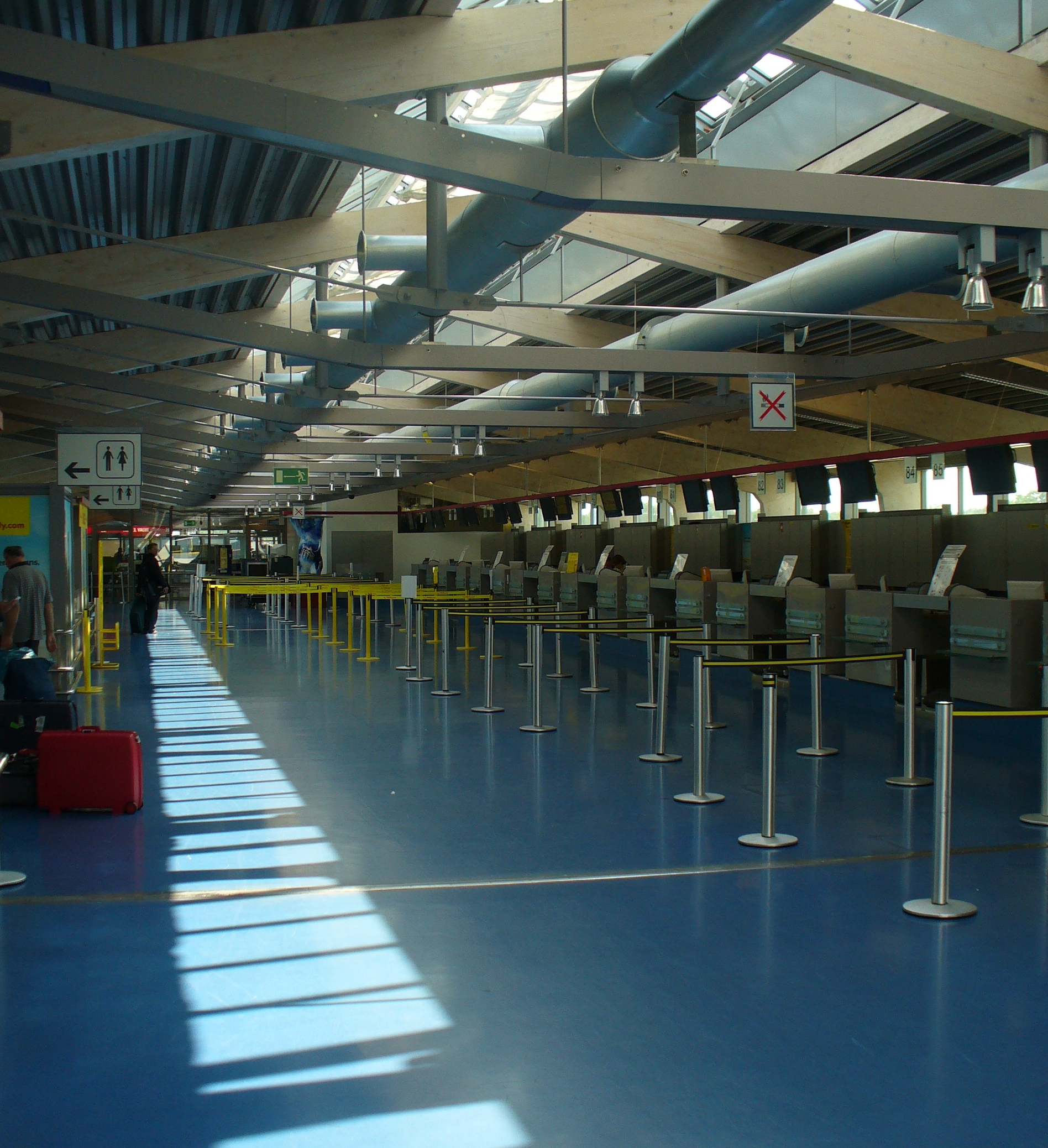 Interior view of Terminal D at Berlin Tegel Airport